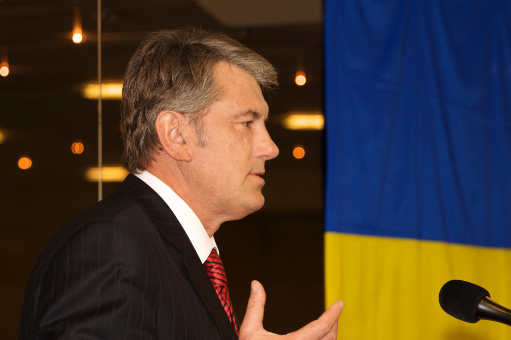 Wiktor Juschtschenko, Präsident der Ukraine, im Widenmoos/Reitnau